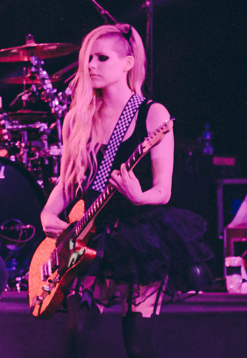 Avril Lavigne in Brasilia, Brazil in The Avril Lavigne Tour